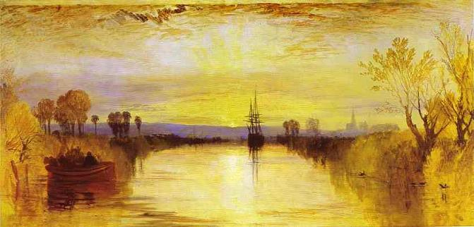 Chichester Canal